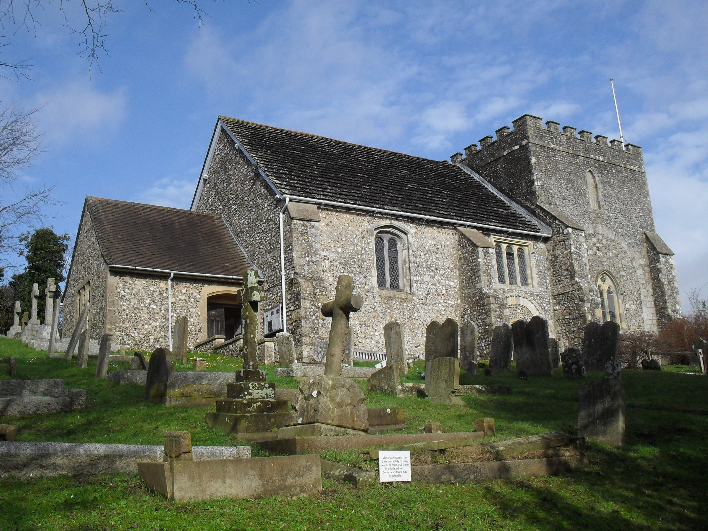 St Nicholas' Church, The Street, Bramber, District of Horsham, West Sussex, England. The Anglican parish church of Bramber, built next to the castle just after the Norman Conquest in the late 11th century. Listed at Grade I by English Heritage (IoE Code 298337)